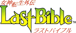 Megami Tensei Gaiden: Last Bible's logotype